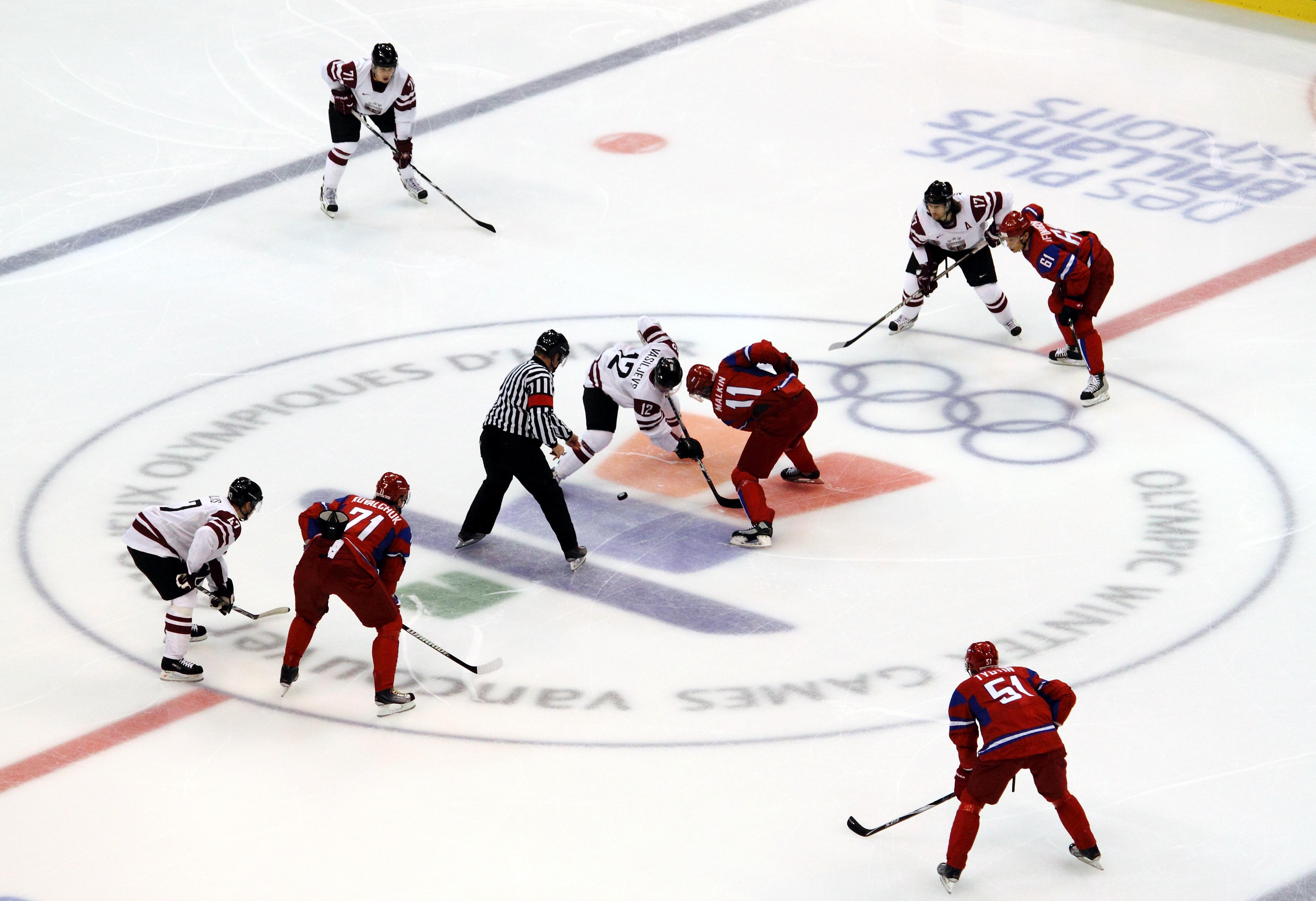 Russia vs Latvia. 2010 Vancouver Olympic Games.